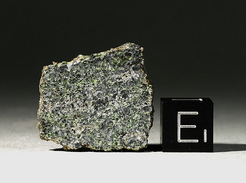 A 2.810 gram slice of the mysterious Northwest Africa 7325 Meteorite with green chromium diopside crystals. Photograph courtesy of Stefan Ralew for the Jared Collins Collection.